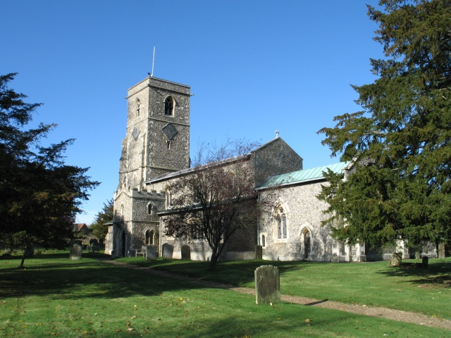 Church of St. John The Baptist, Aldbury. The church is an ancient structure in the early style of English architecture. Originally granted to Missenden Abbey in Buckinghamshire by William de Bocland in about 1200, from then until the Dissolution its patrons were the Abbot and Canons of then Abbey. By the end of the thirteenth century the Church had probably assumed most of the features seen today, although the tower is probably a fourteenth century addition. Much of the worn Totternhoe stonework has been replaced by Bath stone, both internally and externally. See also . . . . 1580341; 1580342; 1580343; 1580345; 1580346; 1580347; 1580349; 1580350; 1580351; 1580353; 1580354